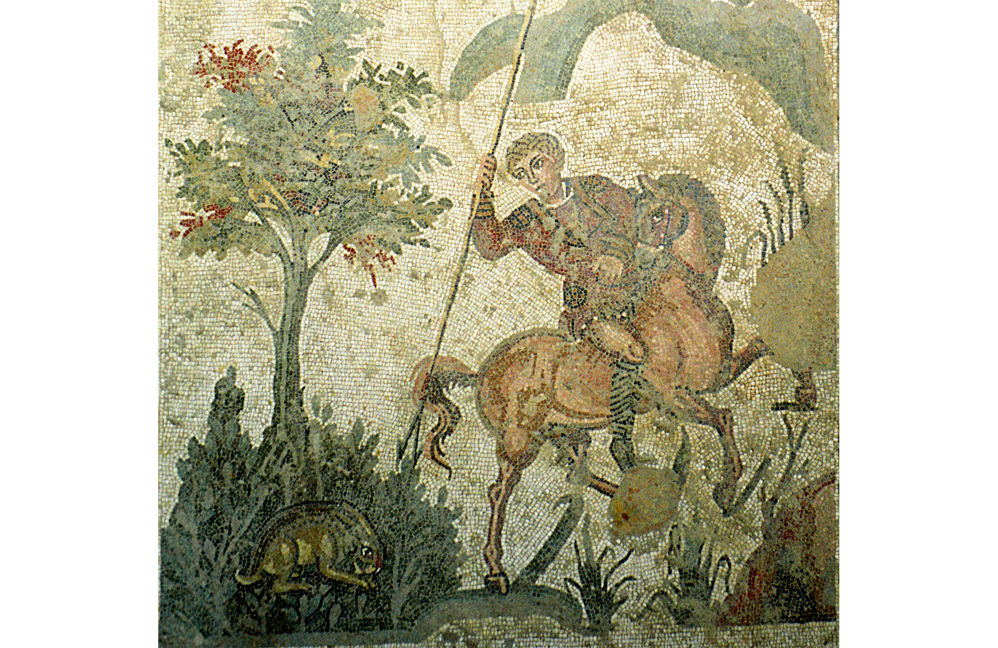 Sicily